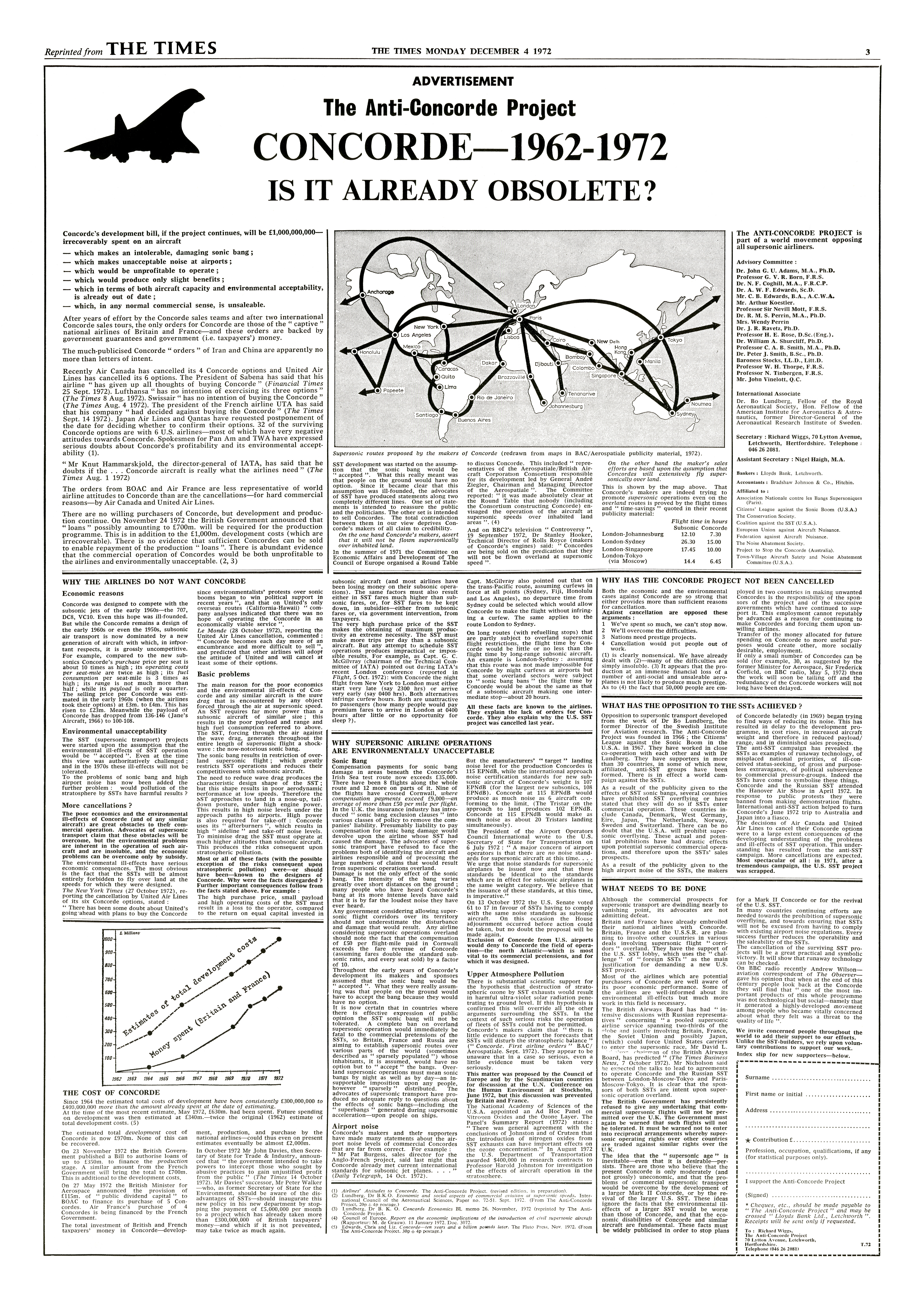 Anti-Concorde Project (ACP) advertisement as it appeared in "The Times" on December 4, 1972, created by Richard Wiggs, founder of the ACP.